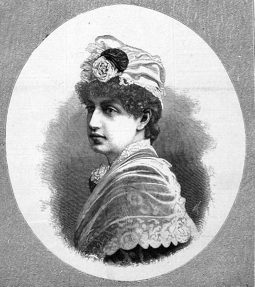 Portrait of English opera singer Georgina Burns published on the cover of Sporting and Dramatic News, 22 February 1879